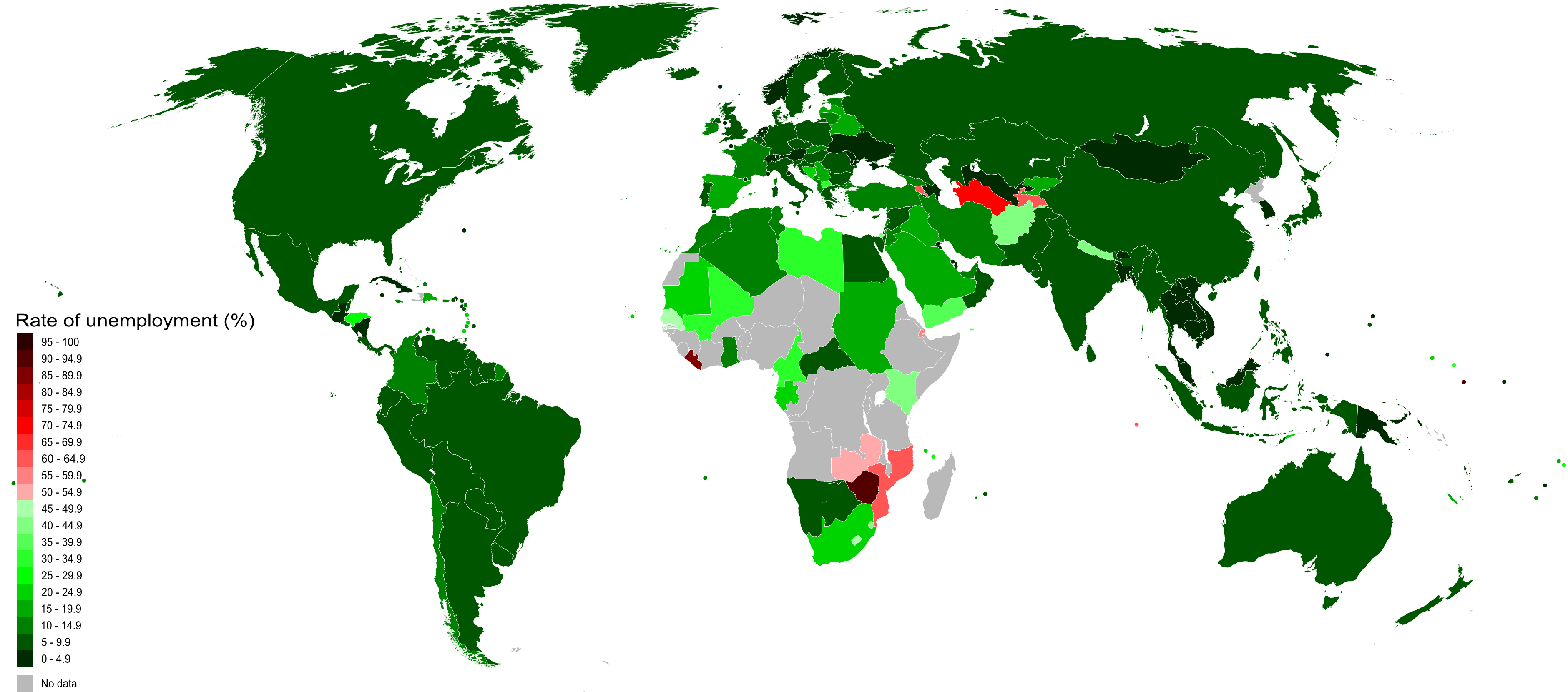 A map of the world showing countries shaded by their rate of unemployment.